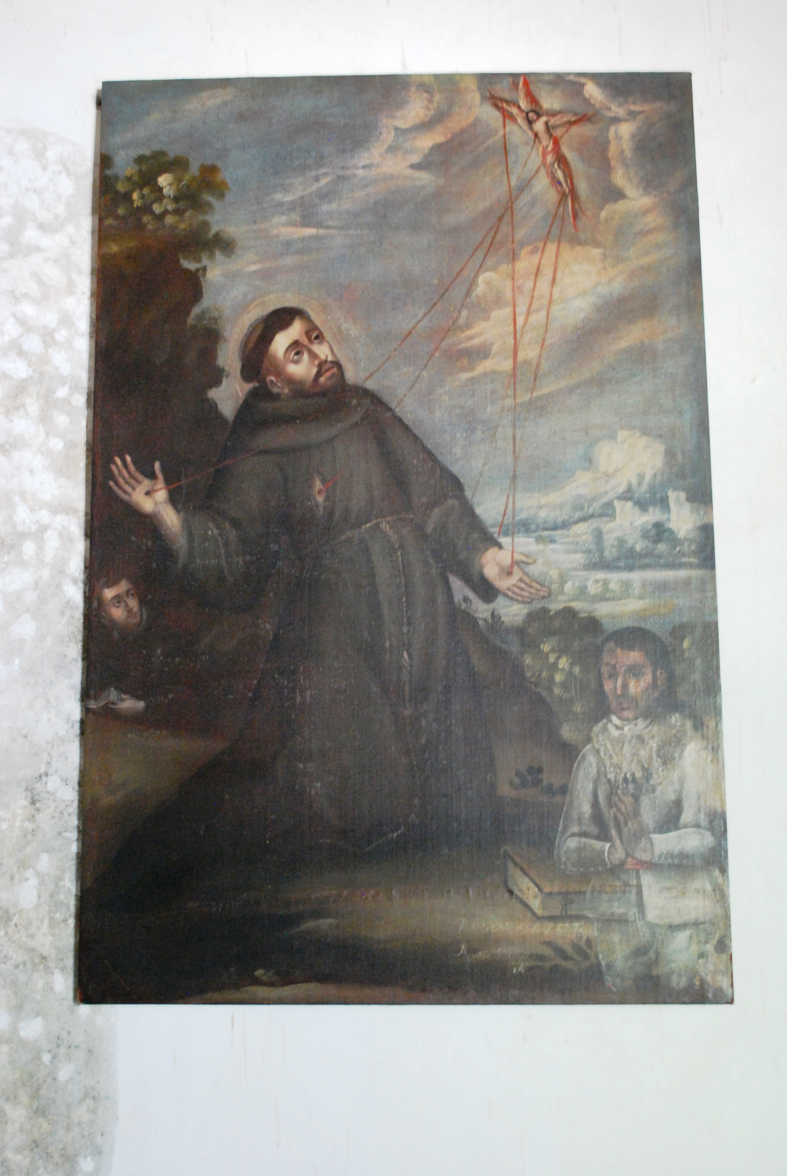 Colonial era painting of St Francis receiving the stigmata on display at the Evangelization Museum of the ex monastery of San Miguel, Huejotzingo, Puebla, Mexico